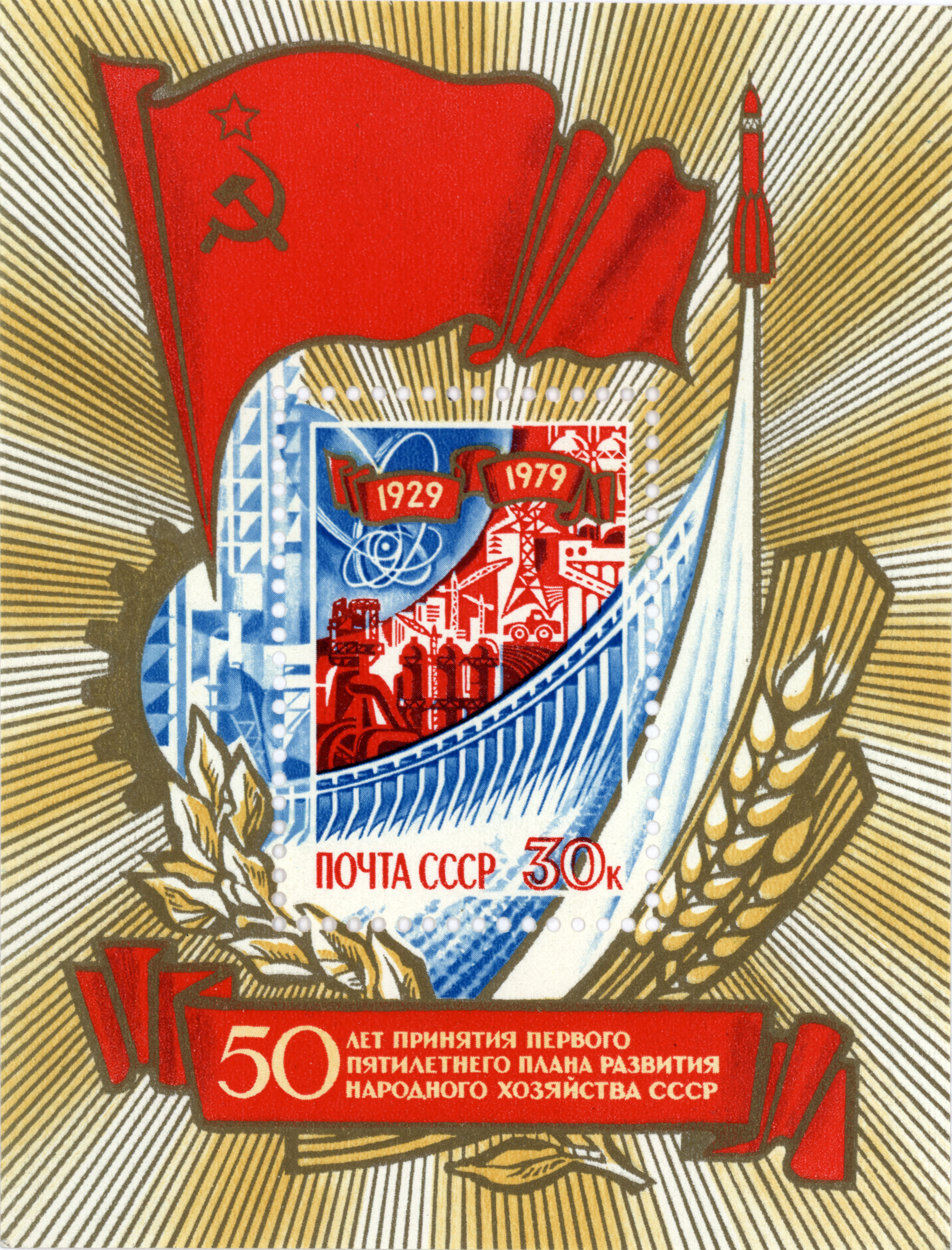 1979 USSR block. 50th anniversary of 5-year plan